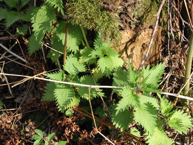 Marsh nettles, Bure Marshes nature reserve The Marsh Nettle (Urtica kioviensis) is quite rare and unusual in that it does not sting